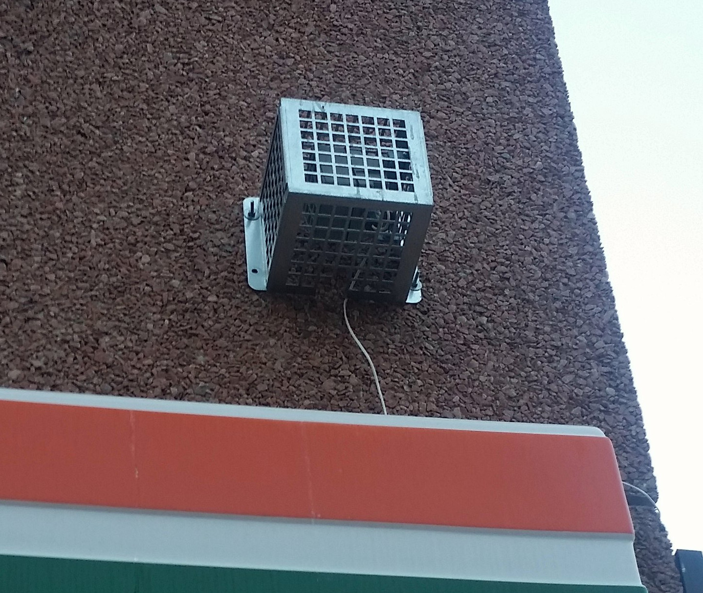 Mosquito noise device mounted outside a 7-Eleven convenience store in Philadelphia, Pennsylvania, United States.